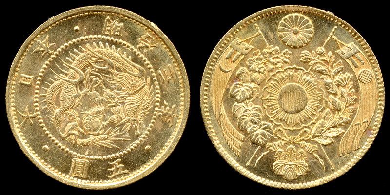 5yen-M3